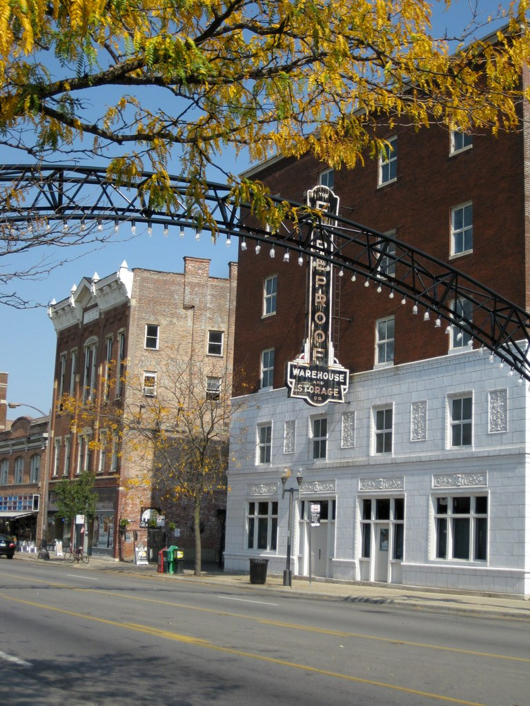 Arches over High Street in The Short North, Columbus, Ohio.